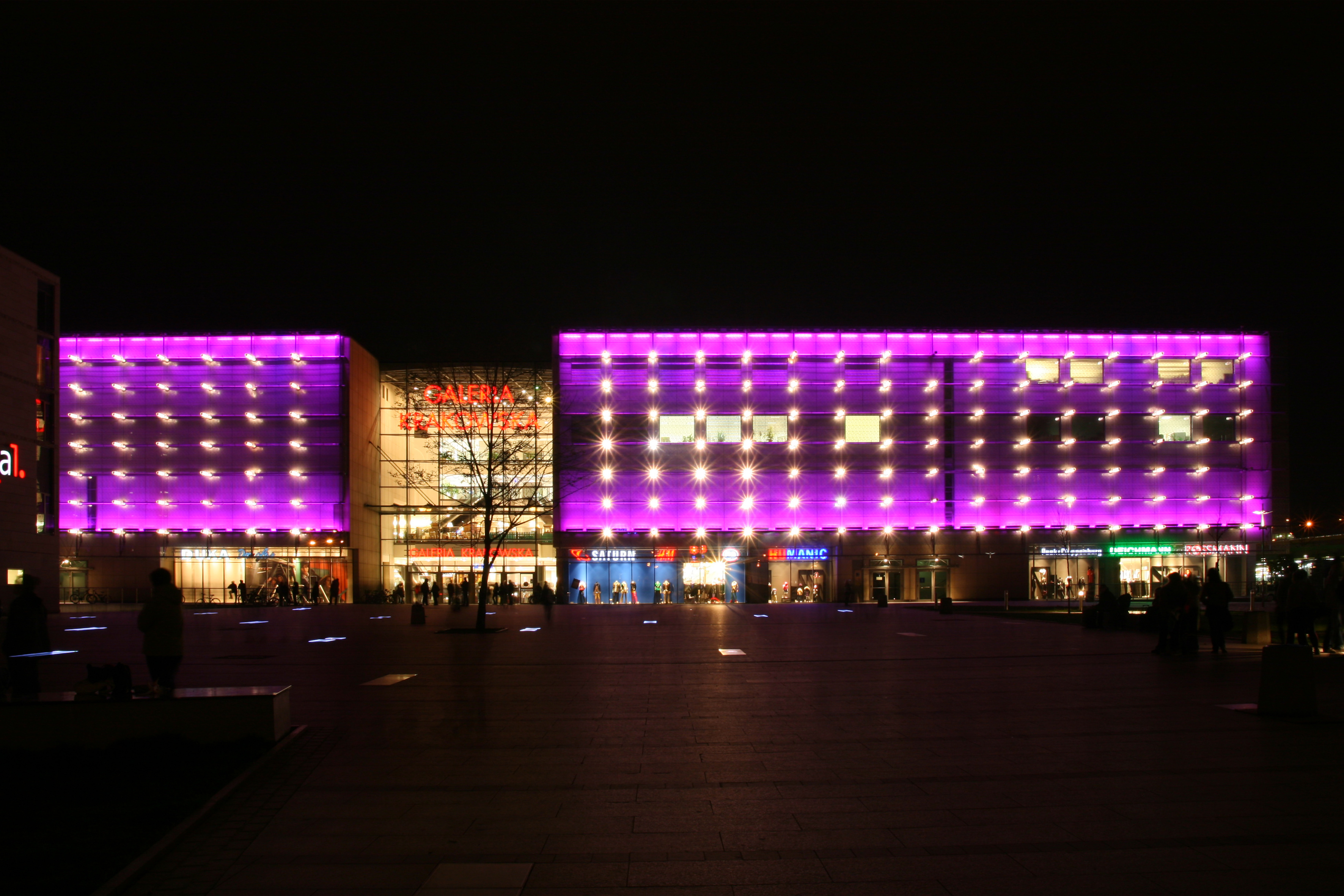 Shopping mall "Galeria Krakowska" in Kraków.